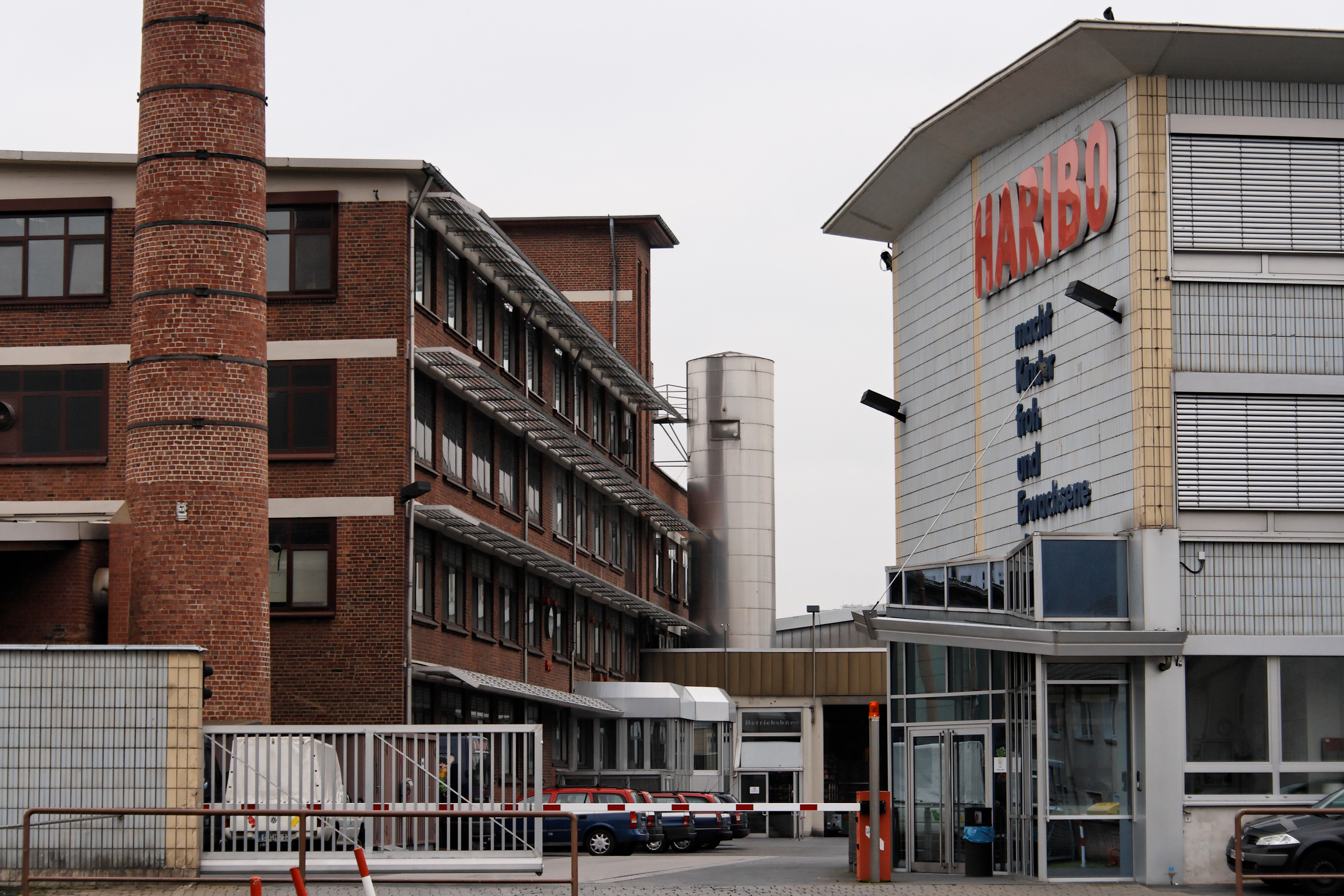 This image shows the main entrance of the Haribo building in Bonn